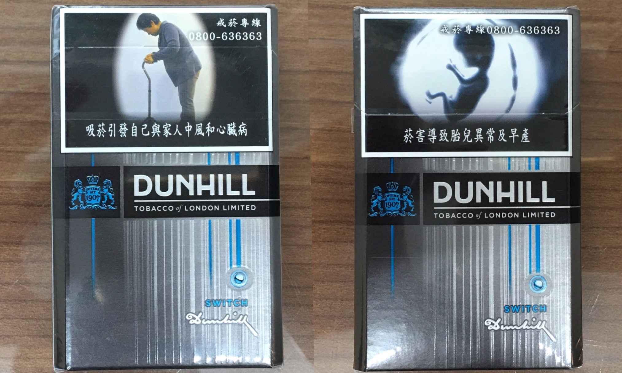 Dunhill cigarettes warning picture in Taiwan